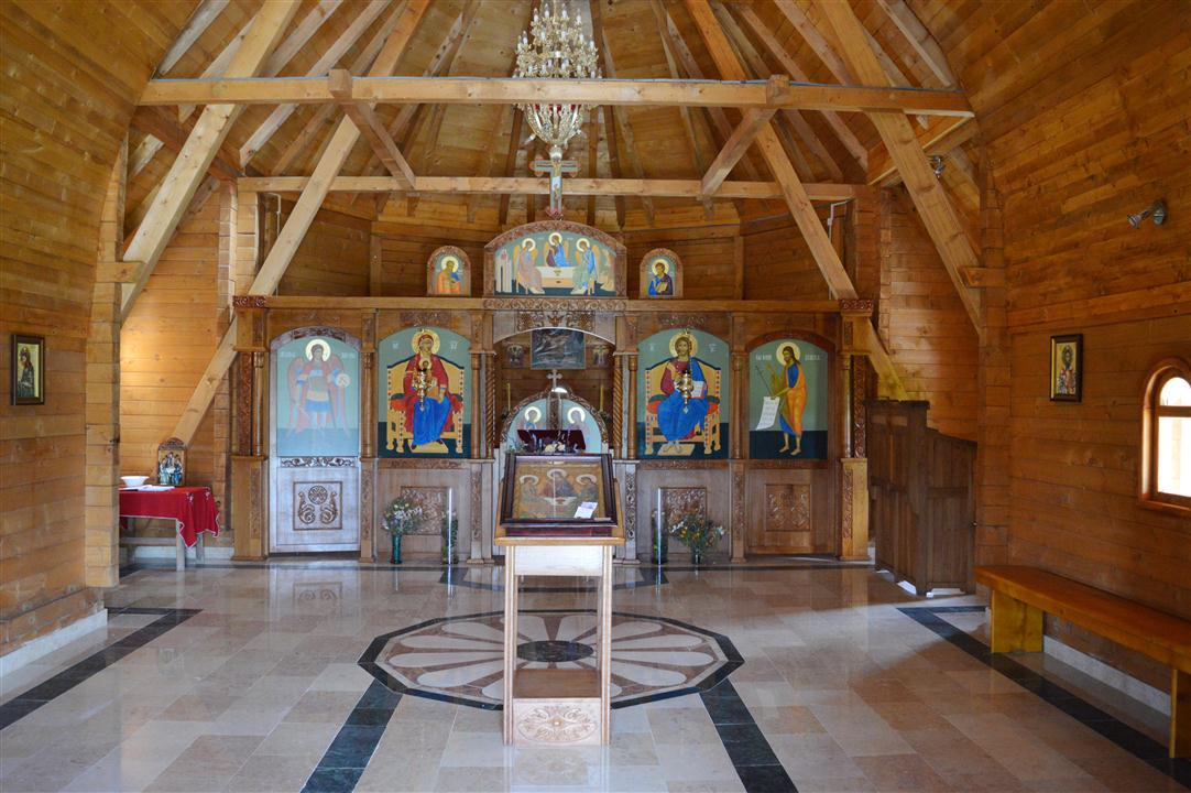 Raska Municipality - Kućane